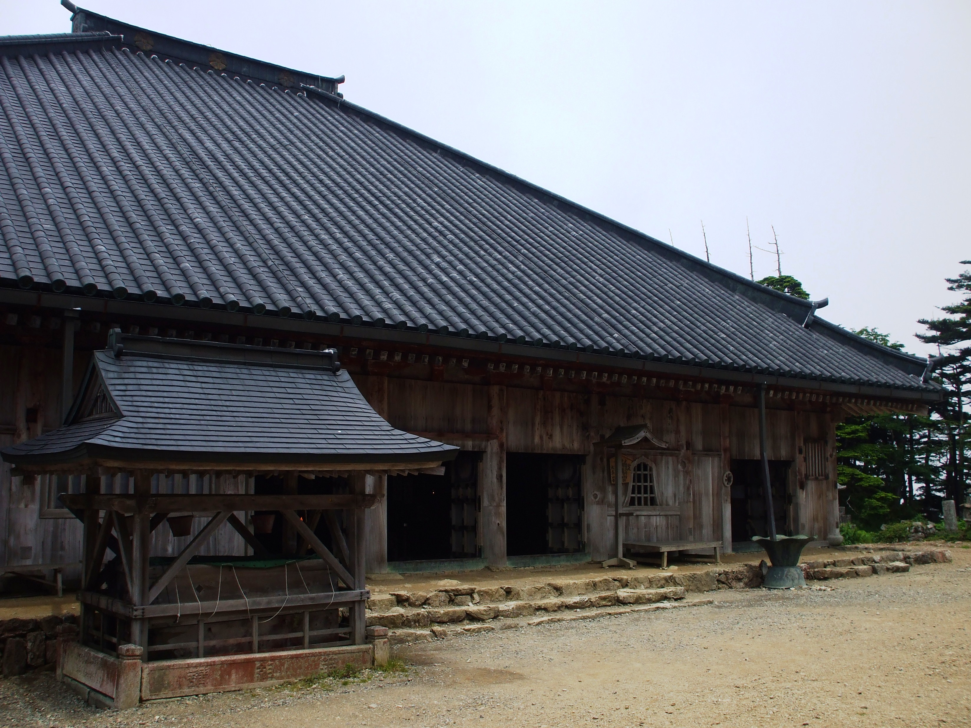 The main building of Ominesanji Temple, Nara, Japan.